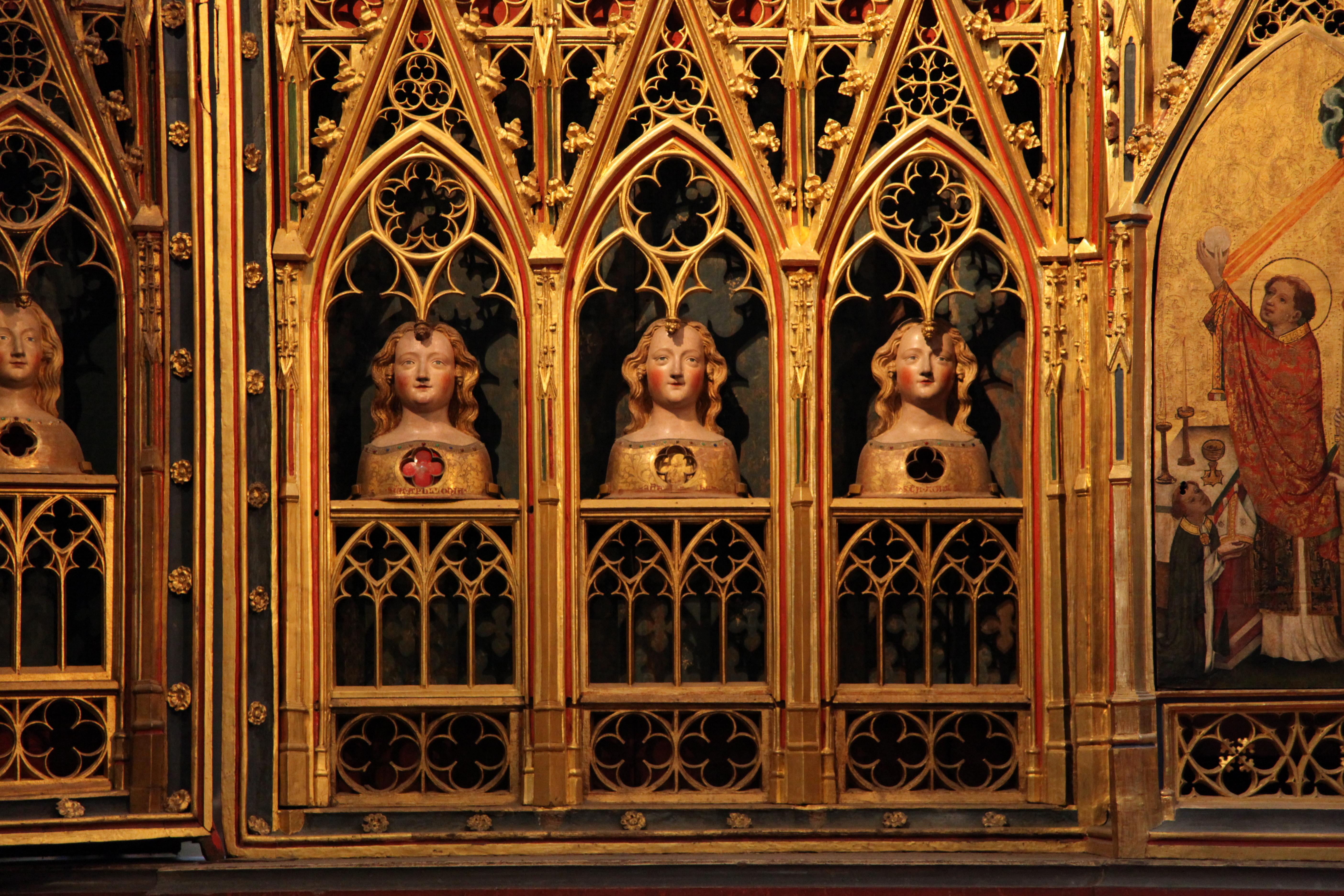 Poor Clares altar in the Cologne Cathedral